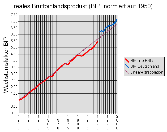 German GDP in constant prices since 1950.